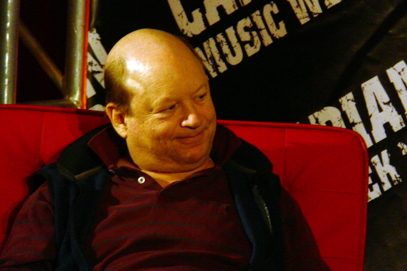 Bob Lefsetz (American music industry figure and author of the email newsletter and blog, the Lefsetz Letter) at Canadian Music Week in Toronto.